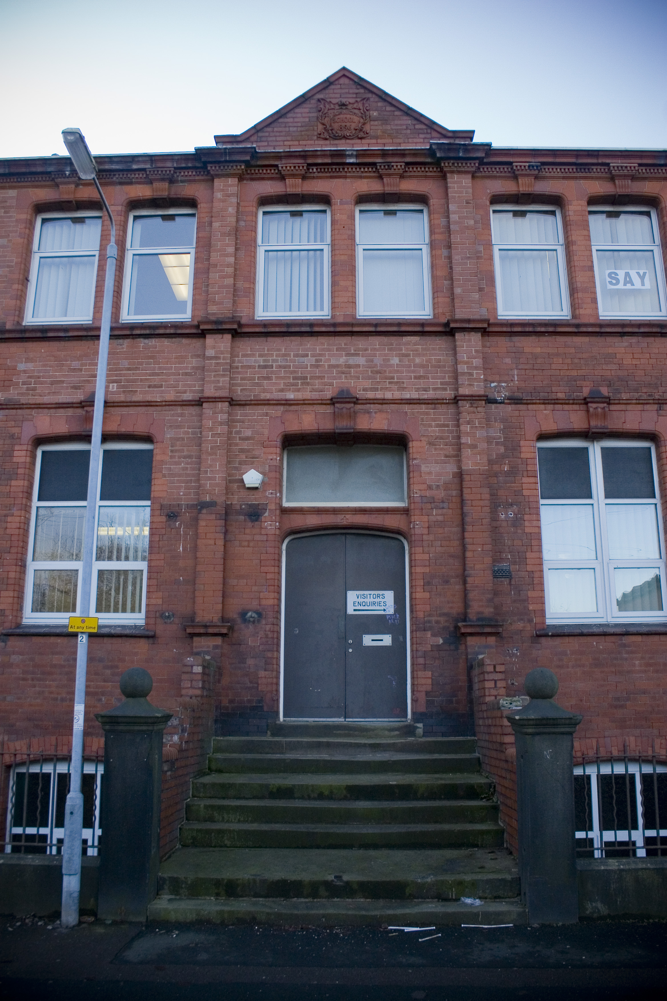 The former entrance to Radcliffe Technical School in Greater Manchester, now offices for the local council.